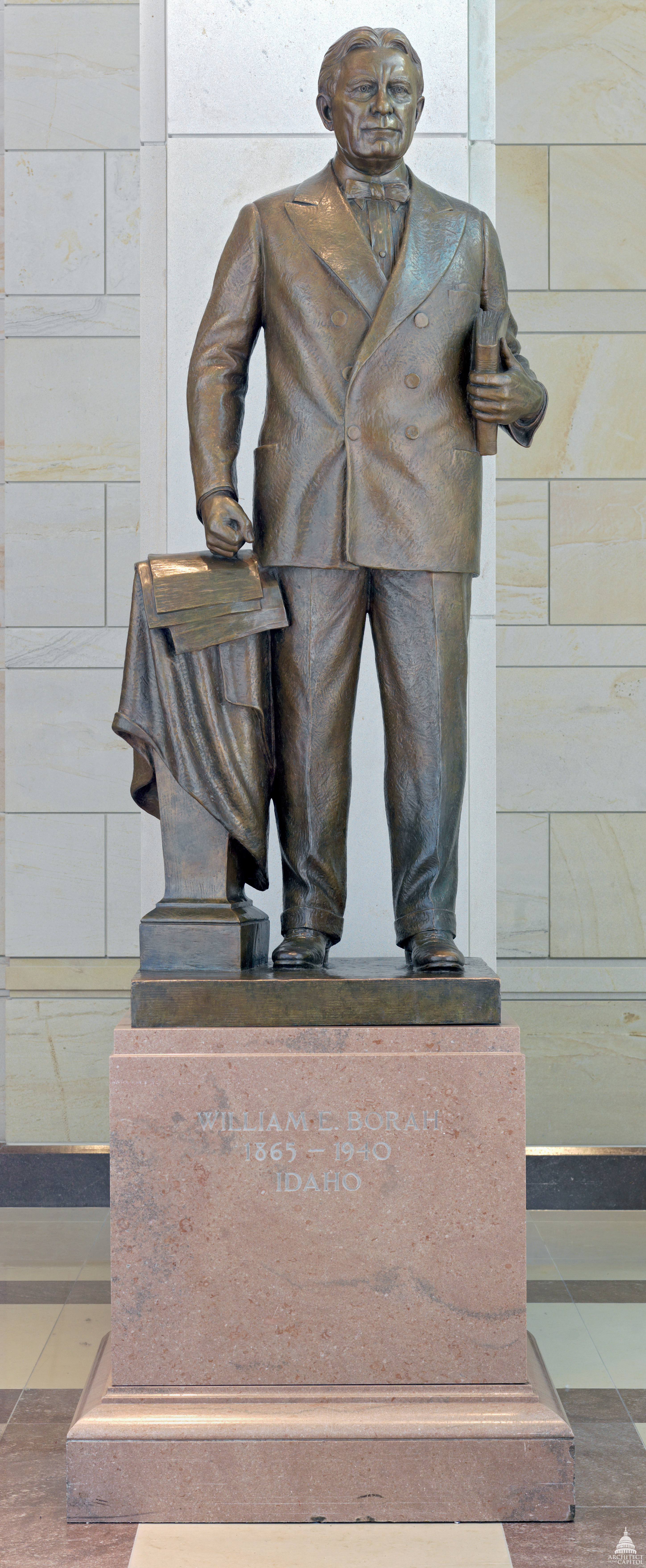 William Edgar Borah (1865-1940) Idaho Bronze by Bryant Baker Given in 1947 CVC Emancipation Hall U.S. Capitol This official Architect of the Capitol photograph is being made available for educational, scholarly, news or personal purposes (not advertising or any other commercial use). When any of these images is used the photographic credit line should read “Architect of the Capitol.” These images may not be used in any way that would imply endorsement by the Architect of the Capitol or the United States Congress of a product, service or point of view. For more information visit